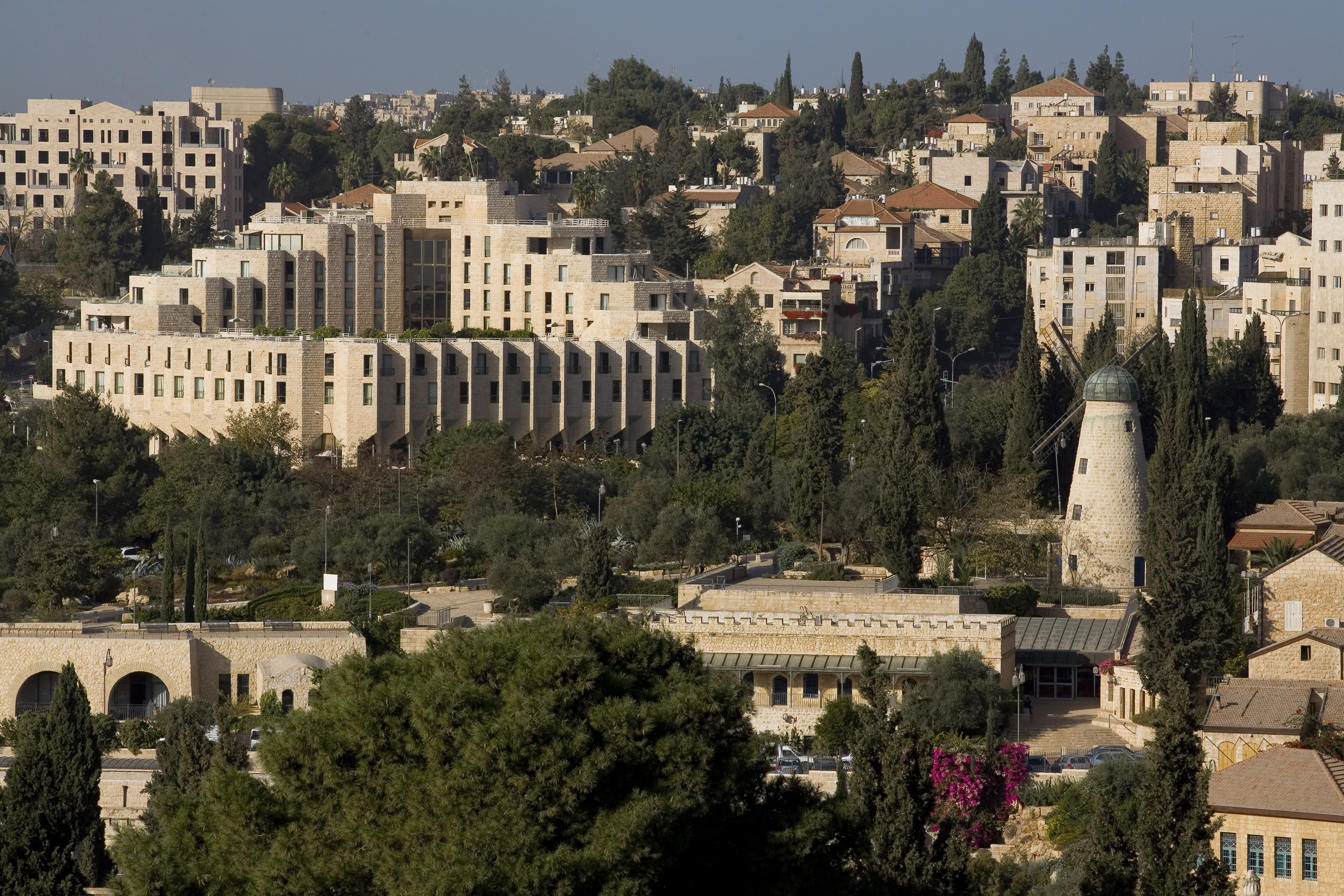 An exterior view of the Inbal Jerusalem Hotel